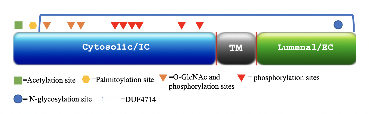 This is a schematic illustration of the human LSMEM2 protein predicted regions, domains, and post-translational modifications. The schematic displays the predicted cytoplasmic/intracellular, transmembrane, and lumenal/extracellular regions. It also displays the predicted post-translational modifications of the LSMEM2 protein.